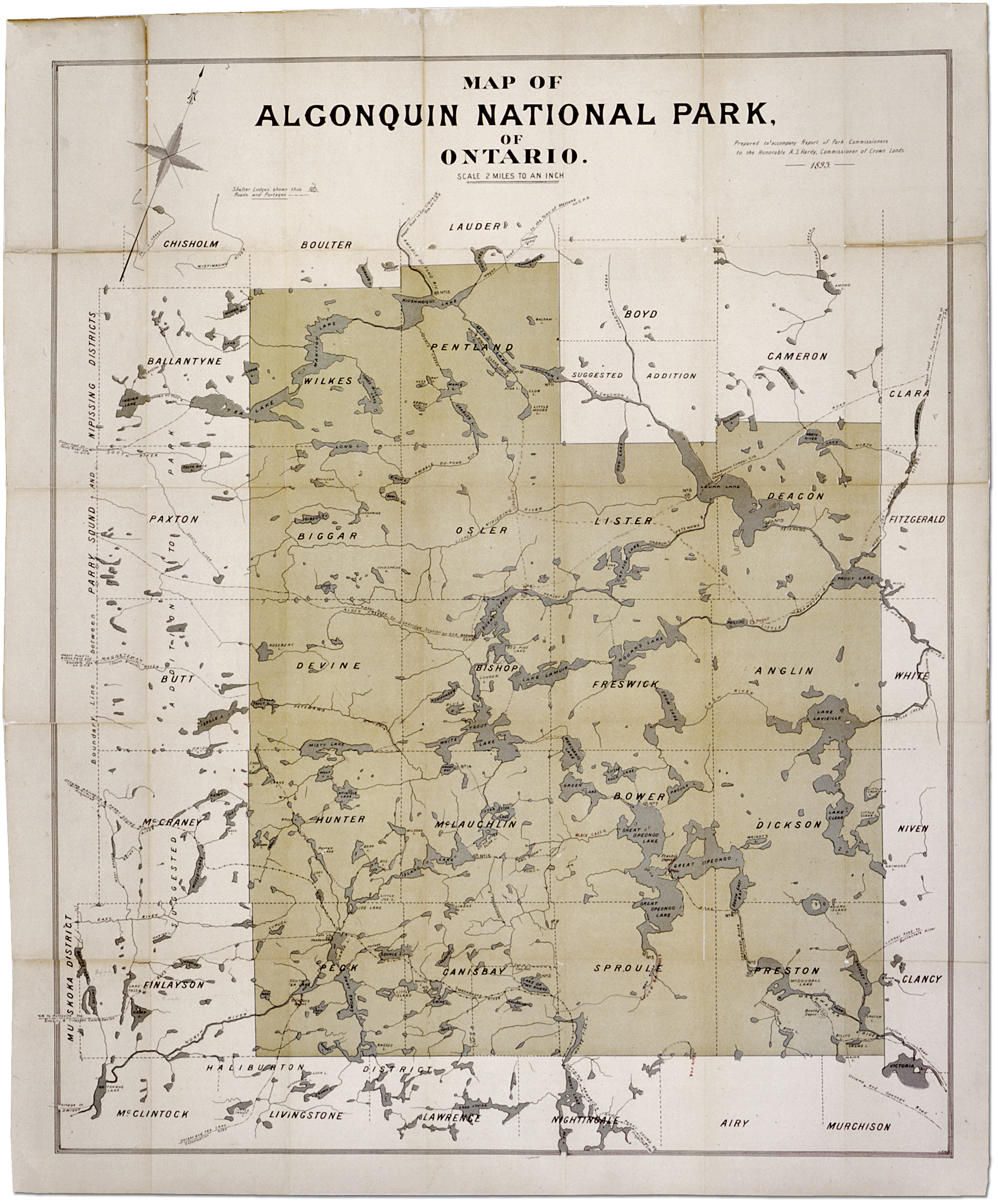 "Prepared to accompany Report of Park Commissioners to the Honourable A.S. Hardy, Commissioner of Crown Lands, 1893."